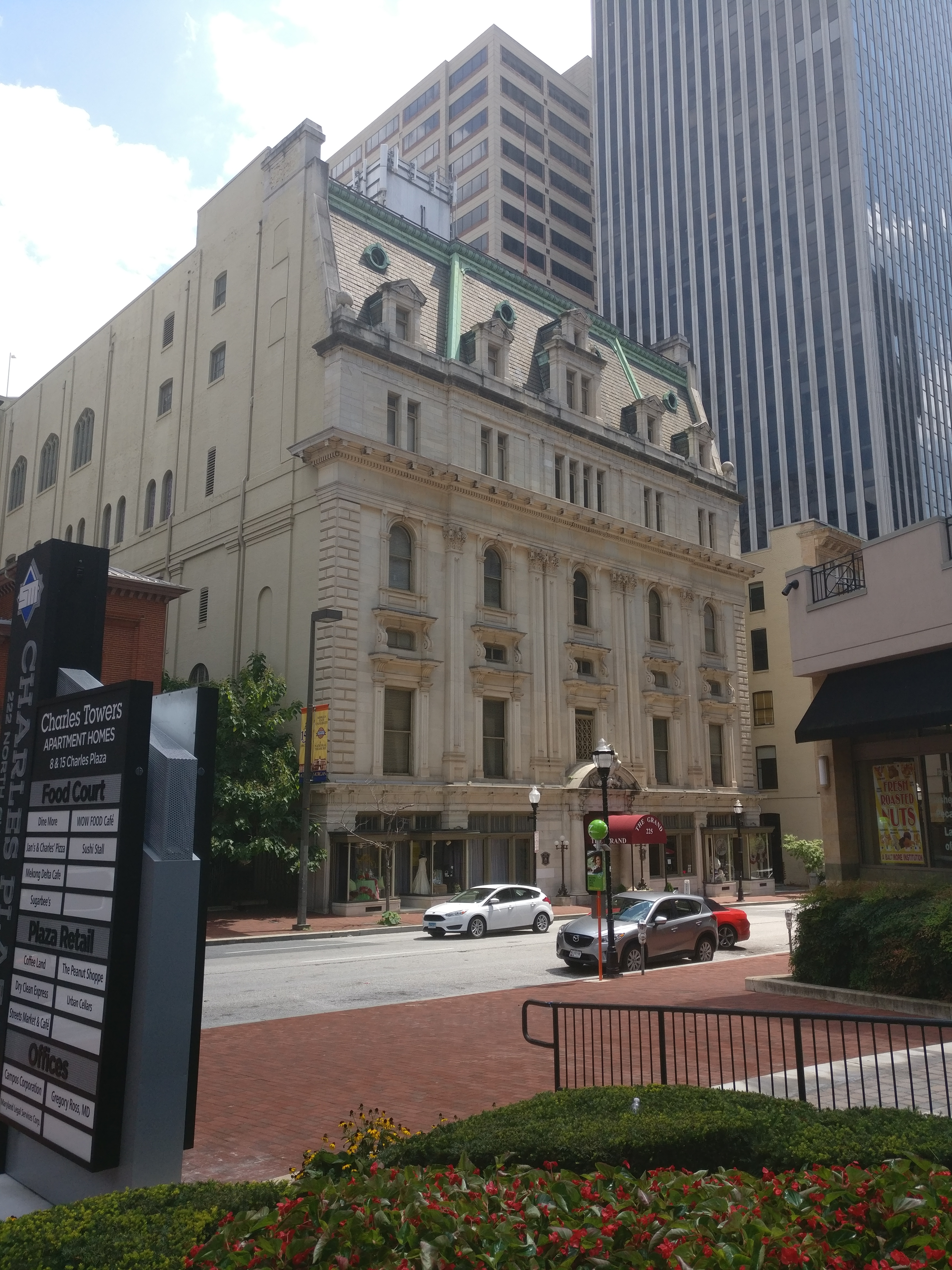 The Grand, 225 North Charles Street, Baltimore